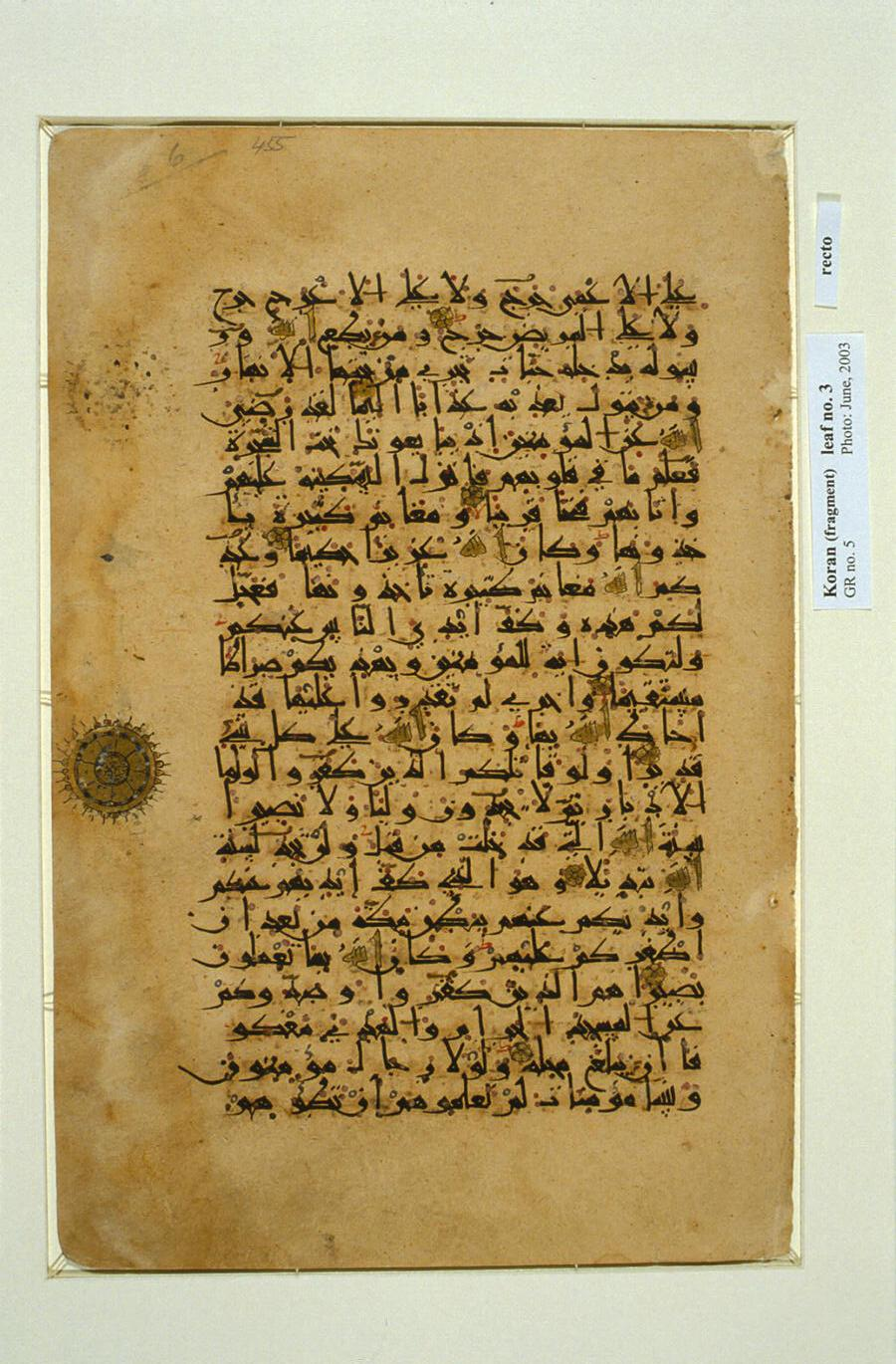 Verses 17-29 of the 48th chapter of the Qur'an entitled Surat al-Fath (The Victory). The text is executed in Kufi script on a beige sheet of paper rather than on parchment. The script is in New Style I typical of vertical Qur'ans produced on paper during the 12th century.